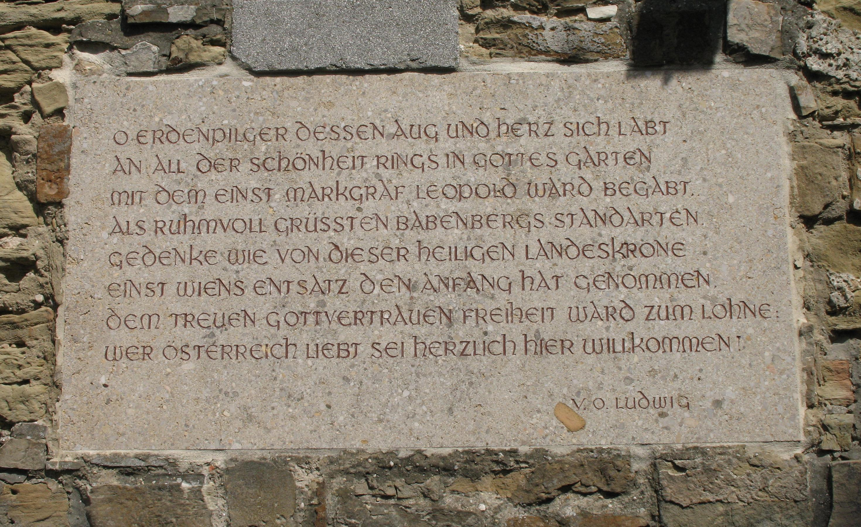 Memorial plaque for Leopold III in Vienna, Austria